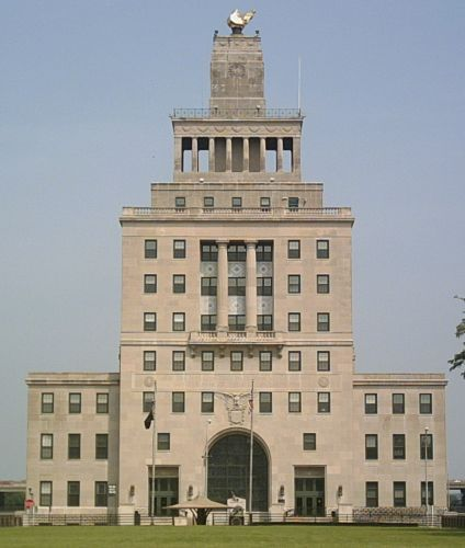 Cedar Rapids, City Hall, photographed by User:Iowahwyman on June 17, 2007